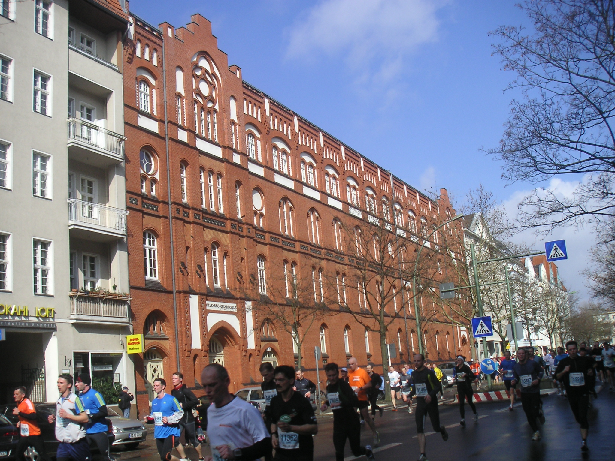 Berlin-Halensee Halensee-Elementary-School at Joachim-Friedrich-Straße